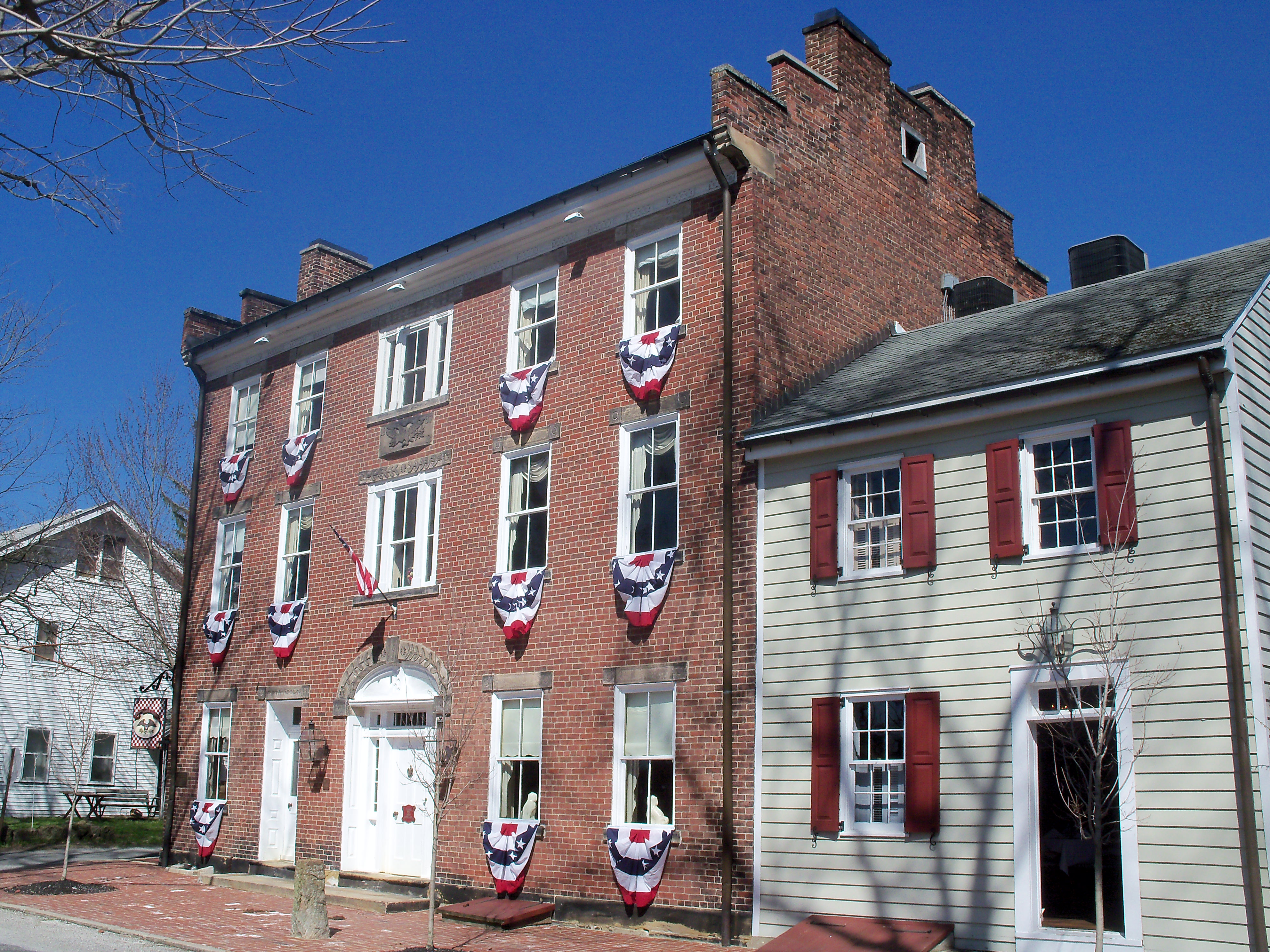 1837 restaurant in Hanoverton, Ohio